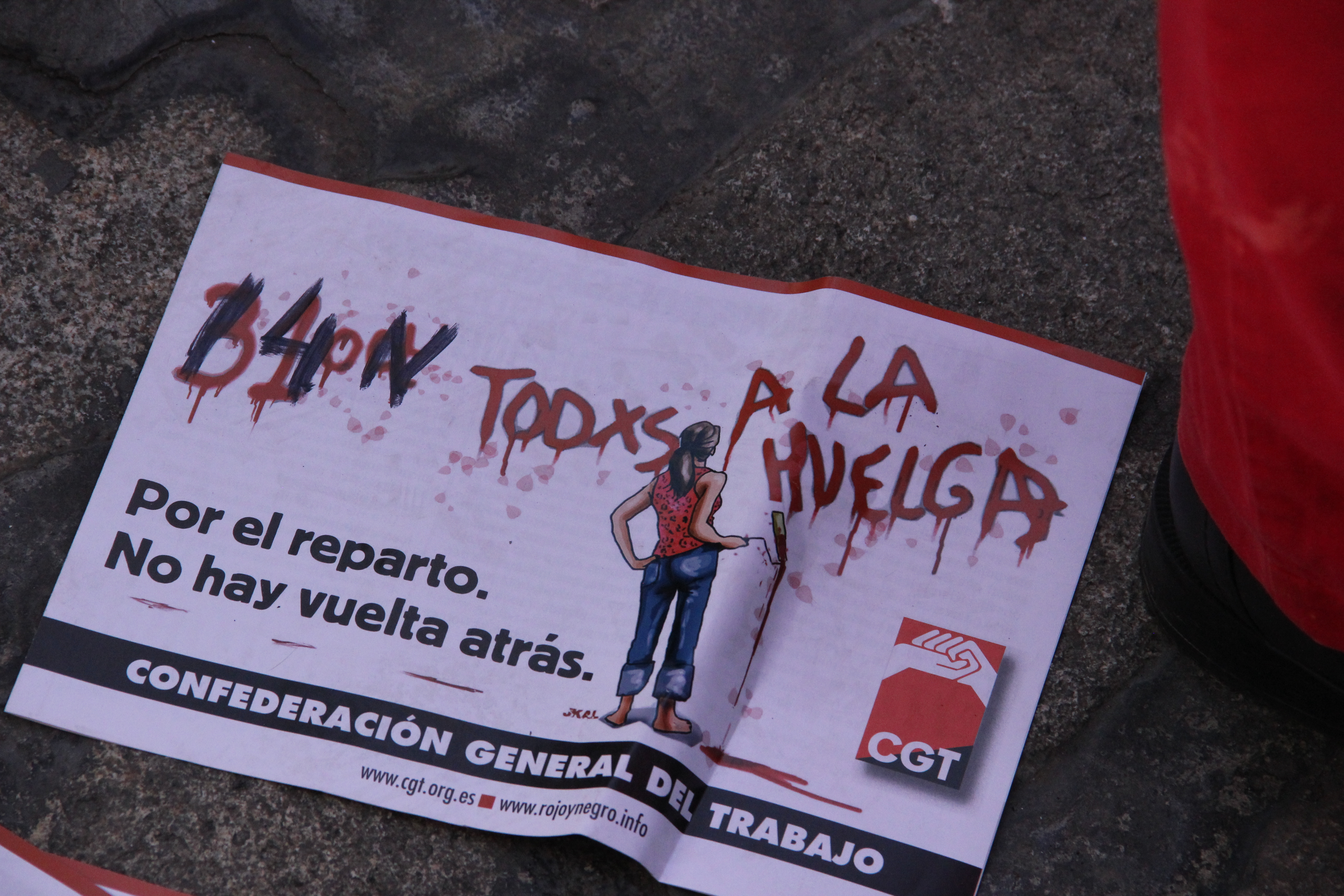 14N General Strike.